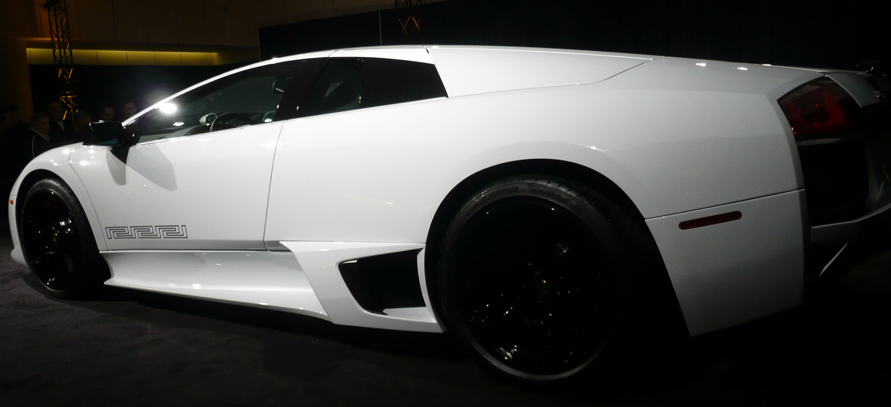 Lamborghini Murcielago LP640 Versace Edition at Toronto Autoshow 2008, Canada